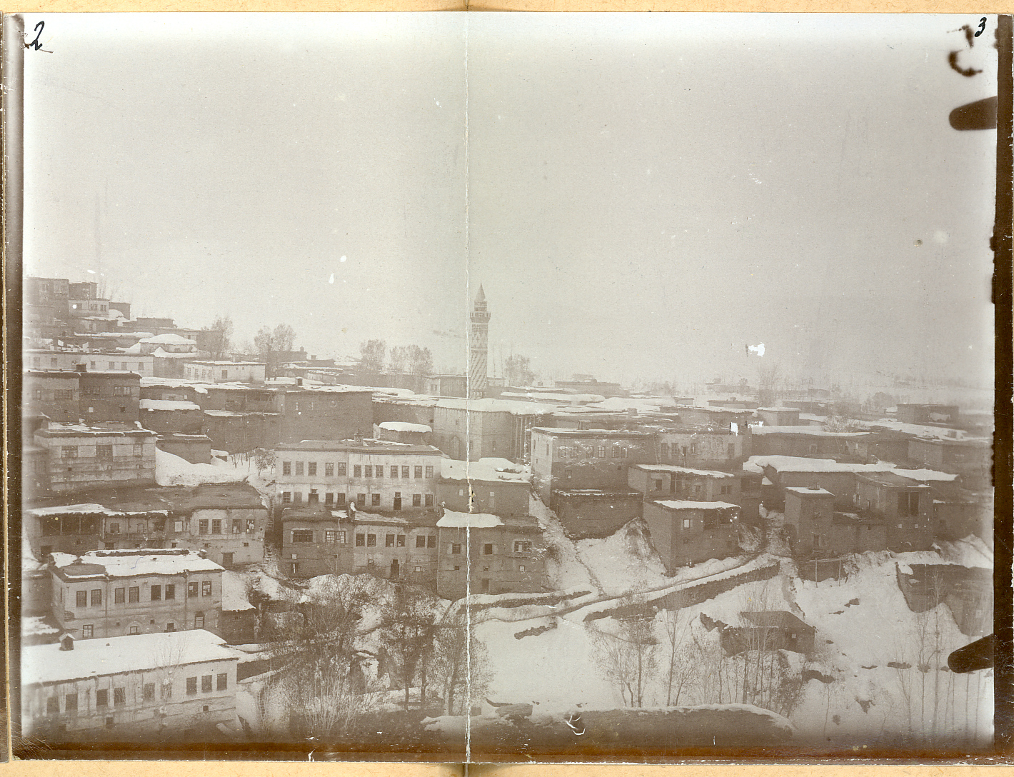 The photo is from Arkivverket. It depicts Musch.